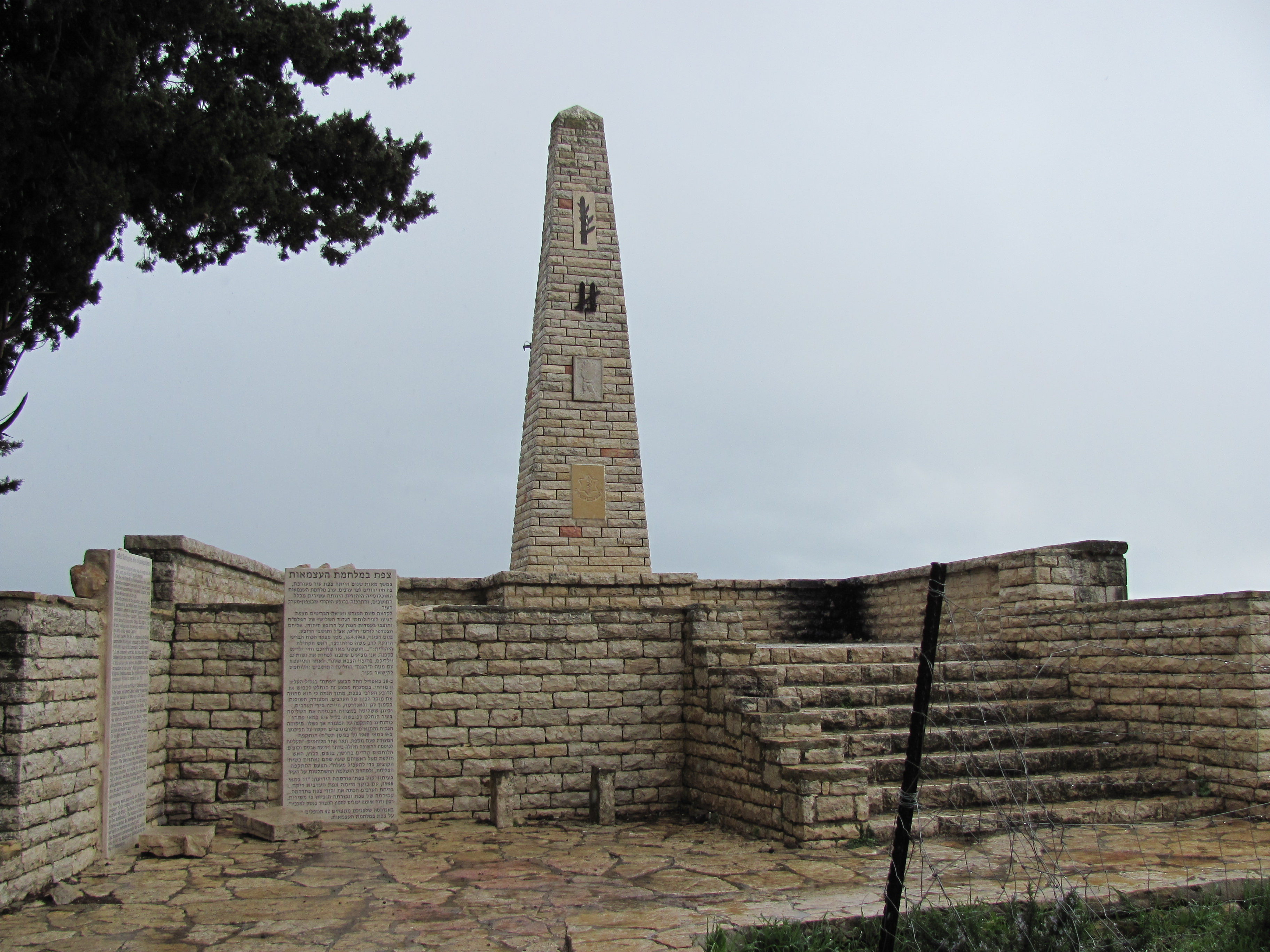 Safed fallen soldiers monument.